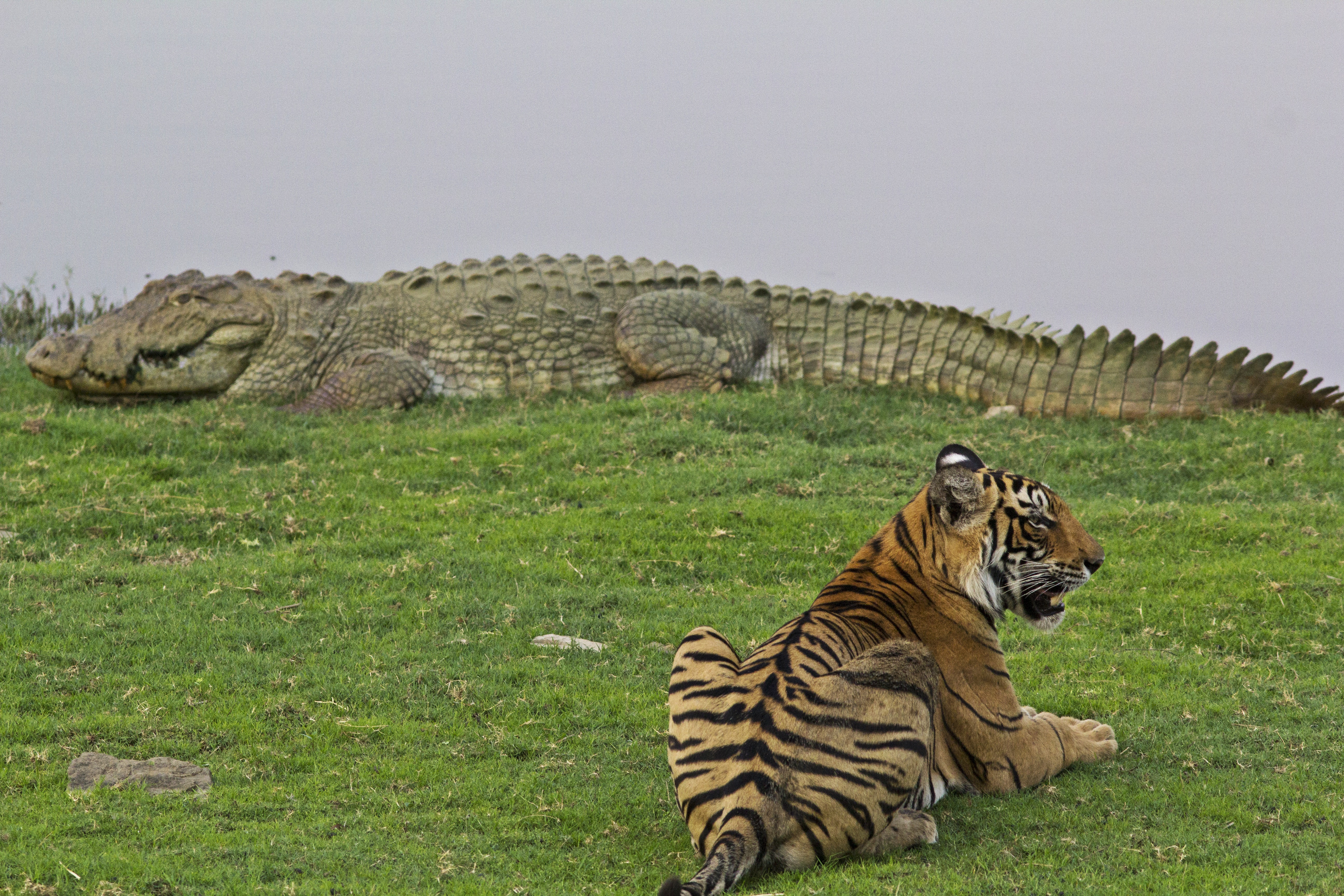 T84 Arrowhead sat aside for a while before confrontation with a huge fresh water crocodile, he is great son of famous tigress macchali